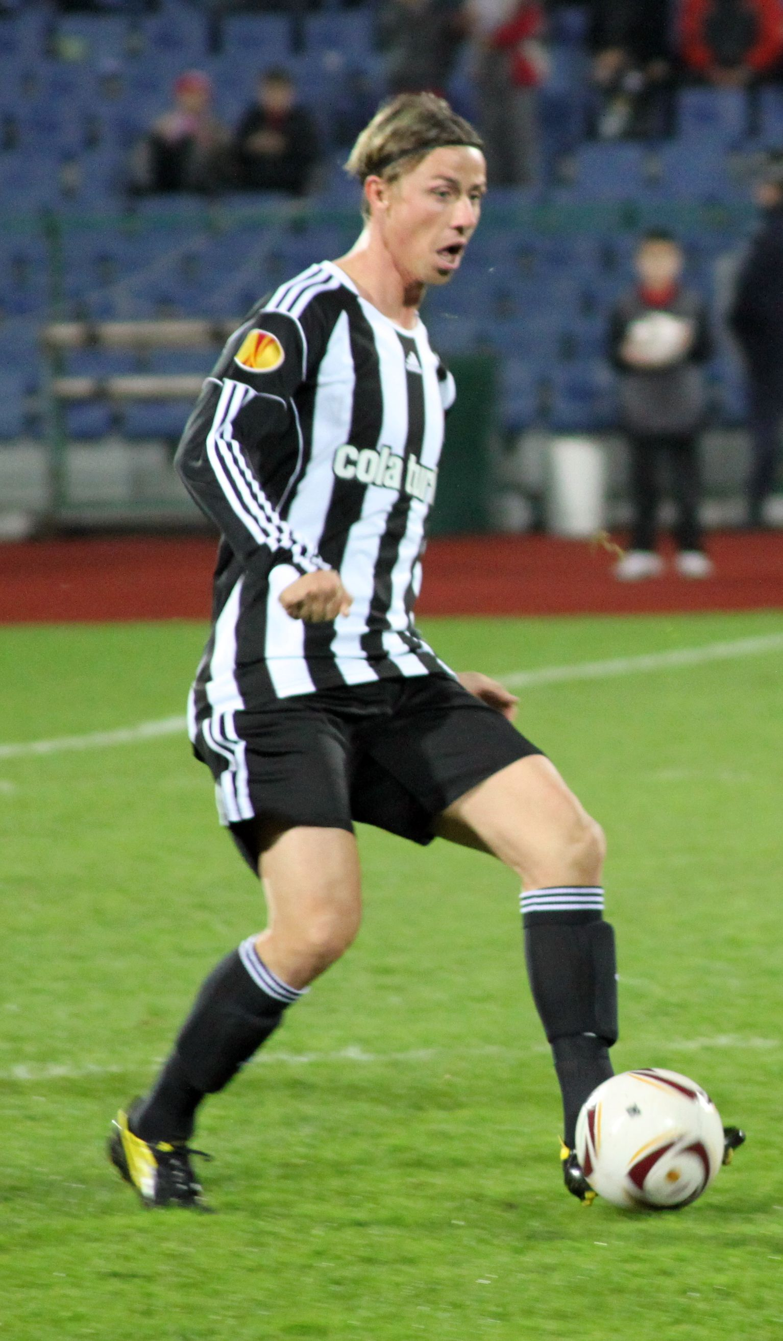 José María Gutiérrez Hernández, commonly known as Guti (born October 31, 1976), is a Spanish footballer who plays for Beşiktaş JK in Turkey, as an attacking midfielder.